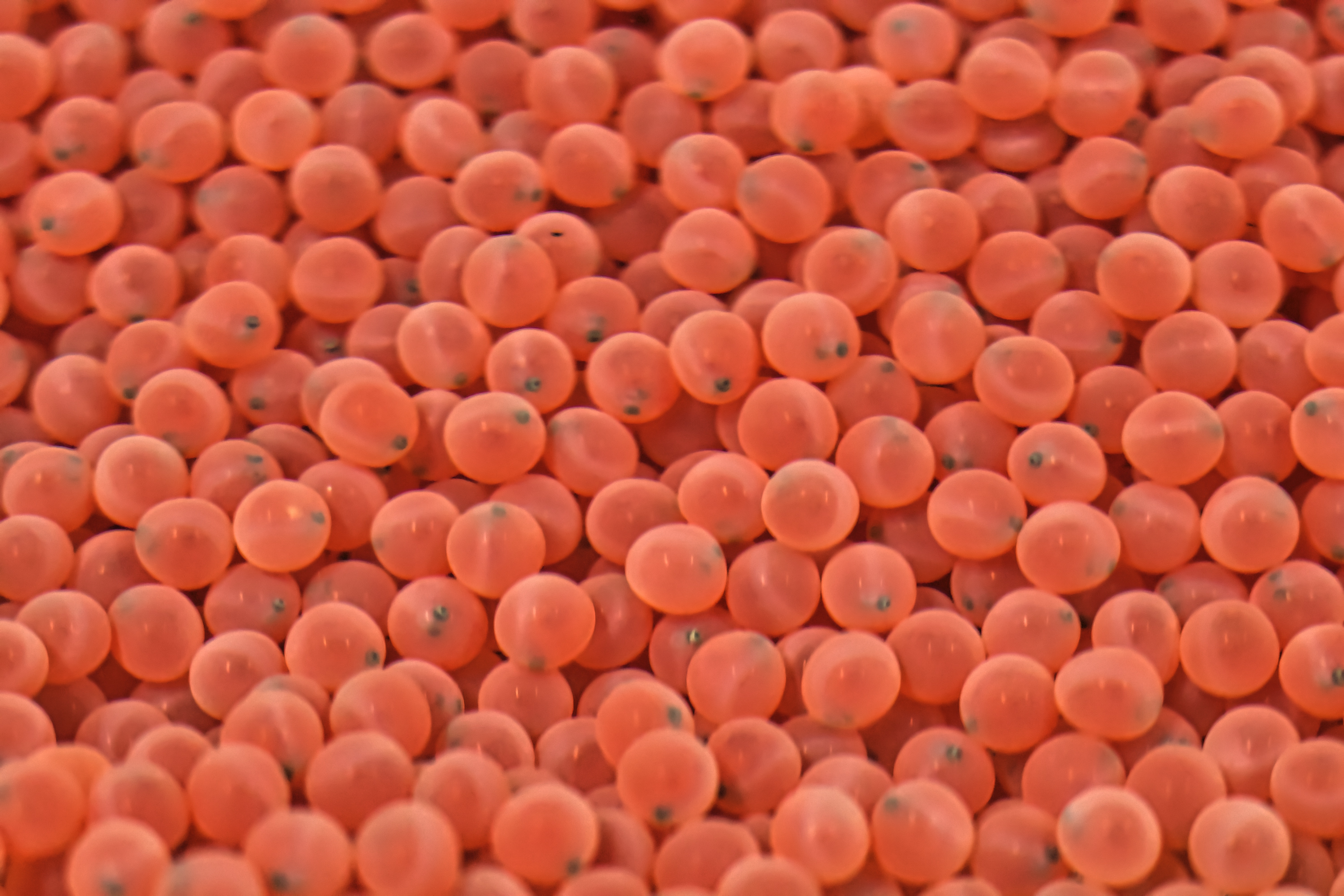 Fertilized eggs collected from winter-run Chinook salmon that are part of the Battle Creek reintroduction captive broodstock program at Livingtston Stone National Fish Hatchery located in northern California near Redding. USFWS photo/Laura Mahoney